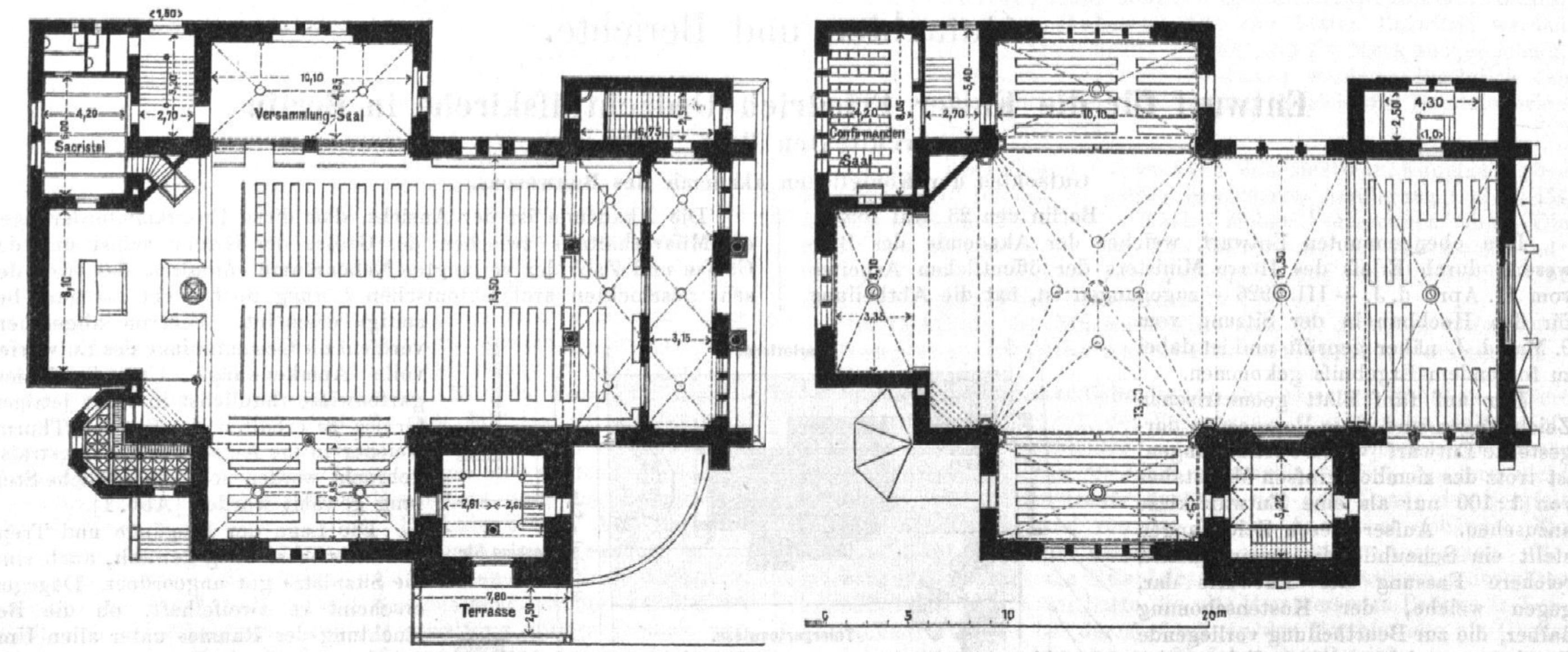 First Kaiser-Friedrich-Gedächtniskirche (Emperor Friedrich Memorial Church) Berlin - Tiergarten, architectural ground-plans by Johannes Vollmer 1892, left: at ground level, right: at gallery level; built 1892-1895 the church was destroyed in WWII, the ruin demolished in 1953-54 to make way for a newly designed church.